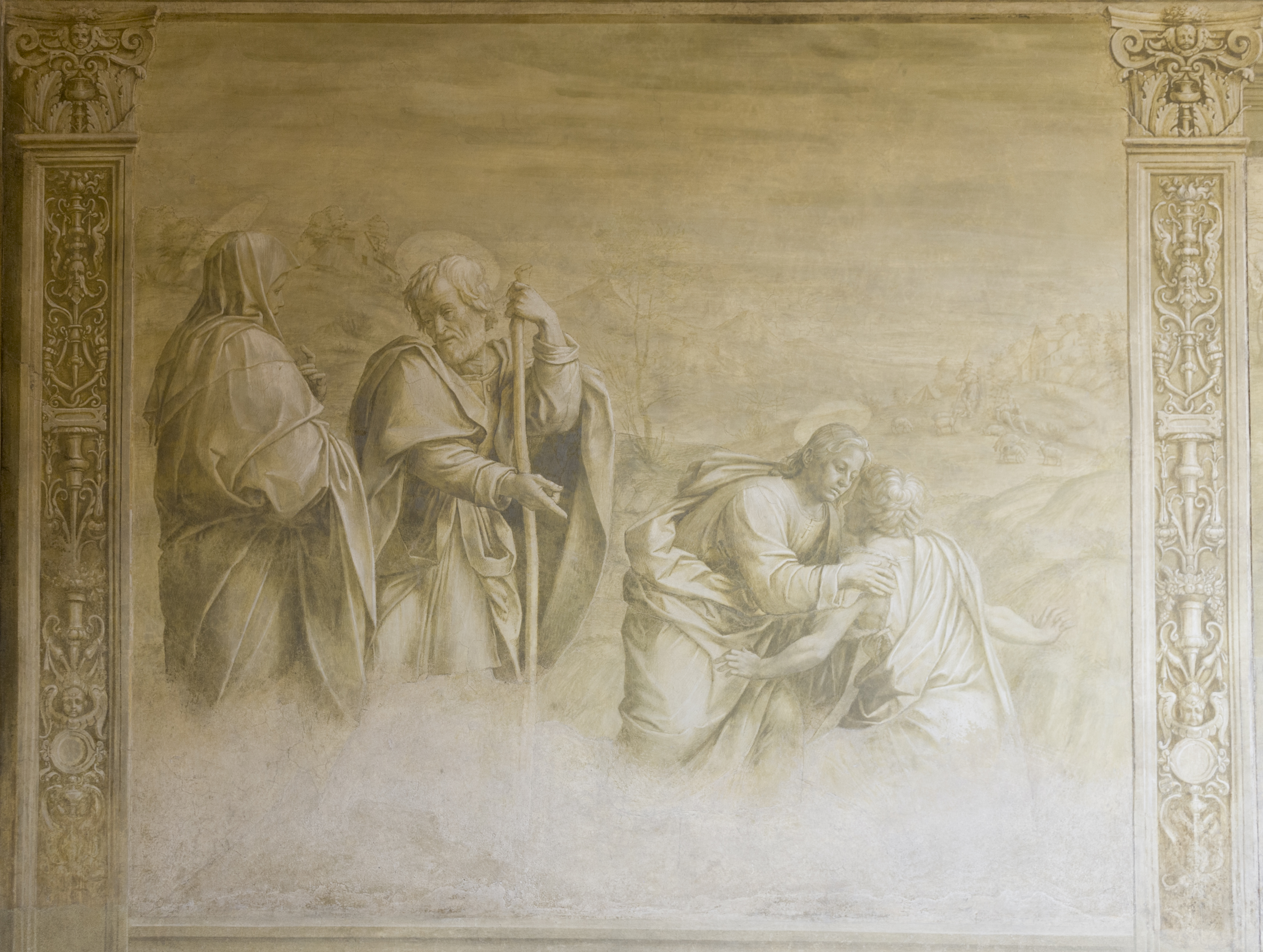 "Meeting of Jesus and the Young St. John" by Francesco di Cristofano